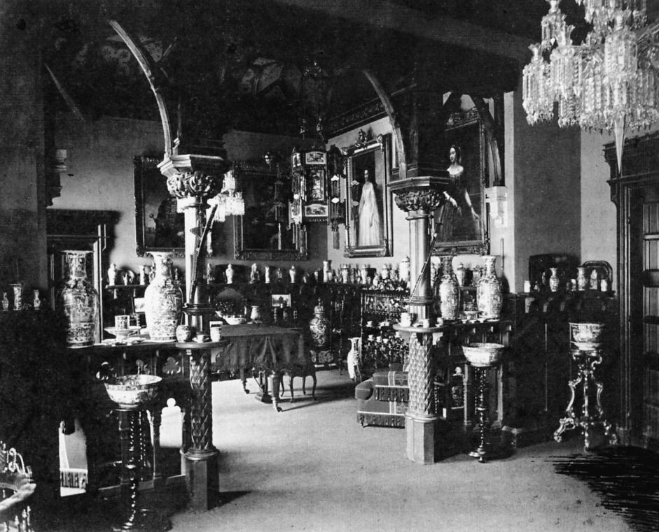 Chinese rooms in the Marienburg near Nordstemmen, Lower Saxony, Germany, in the year 1867.